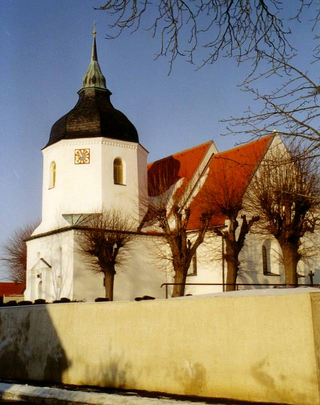 Church of Blochwitz